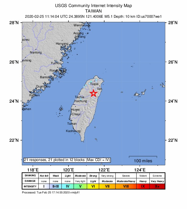 M 5.1 - 50km NNW of Hualian, Taiwan(USGS)- intensity